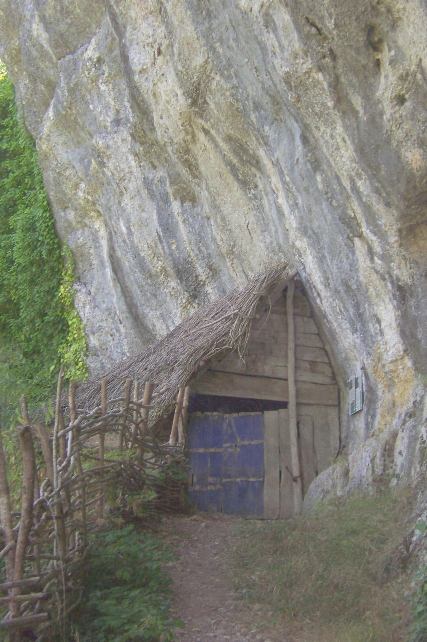 The shelter Pagès located at the confluence of rivers Ouysse et de l'Alzou on the road of the old watermil of Caoulet, near Rocamadour. A prehistoric site dated from Azilian